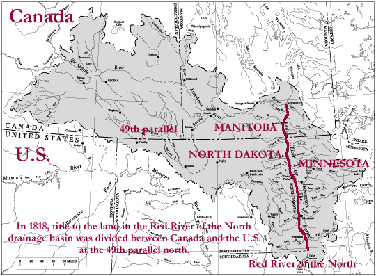 Based on